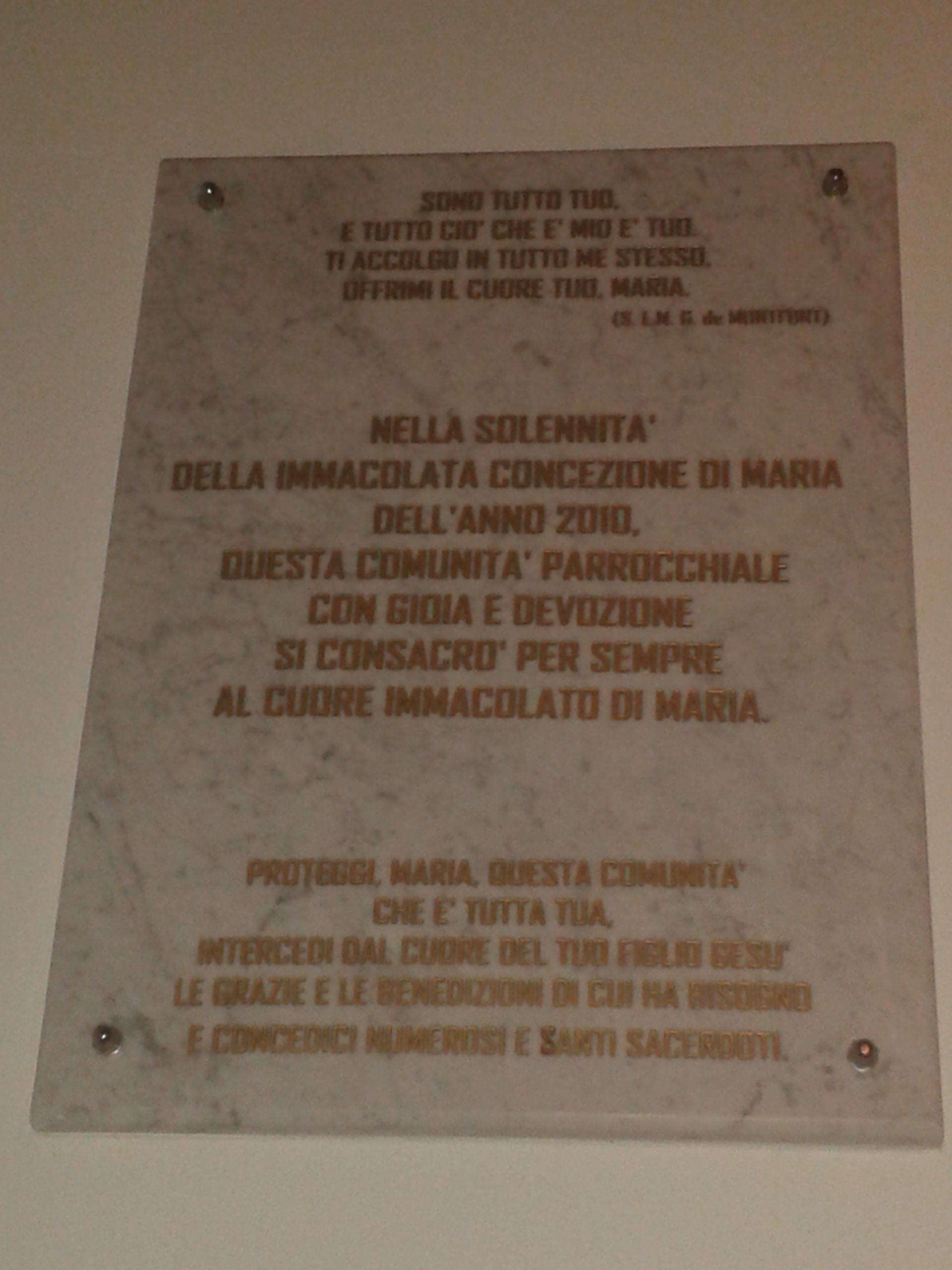 Plaque of dedication to the Virgin Mary - Parish SS. Peter and Paul in Cagliari